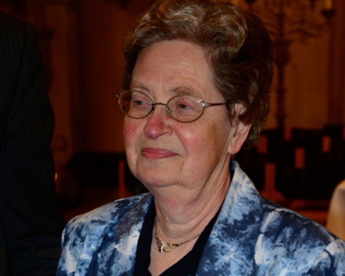 Prof. dr. J. H. A. van Konijnenburg-van Cittert, Dutch paleobotanist.